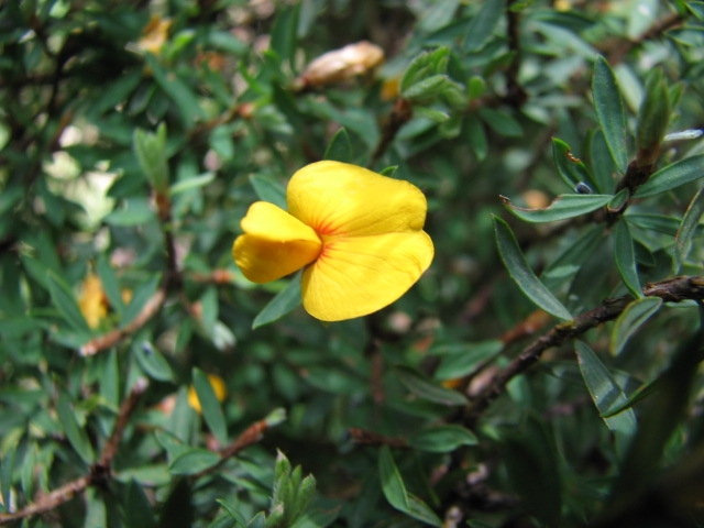 Pultenaea muelleri Baw Baw National Park, Victoria, Australia